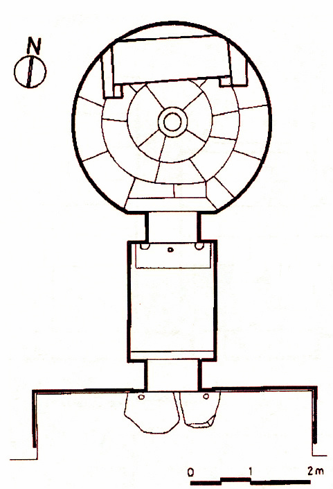 Arsenalka plan tomb